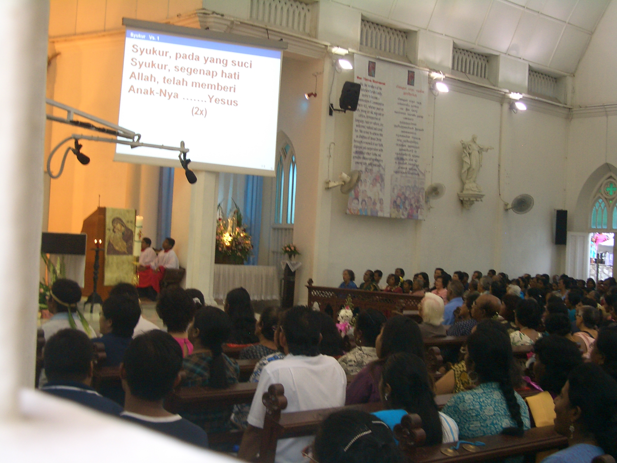 Service at the Feast of Visitation at the church of the same name in Seremban, Malaysia. Note the screen used for displaying the text of the hymn currently being sung (at this moment, in Malay)